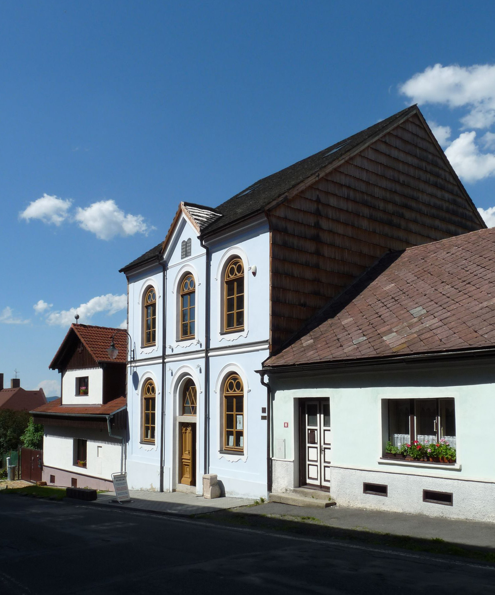 Former synagogue in the town of Hartmanice, Klatovy District, Czech Republic